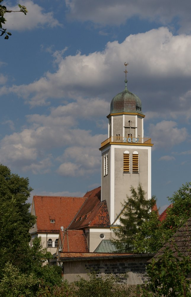 Saint Anthony of Padua church in Luboszyce, Poland